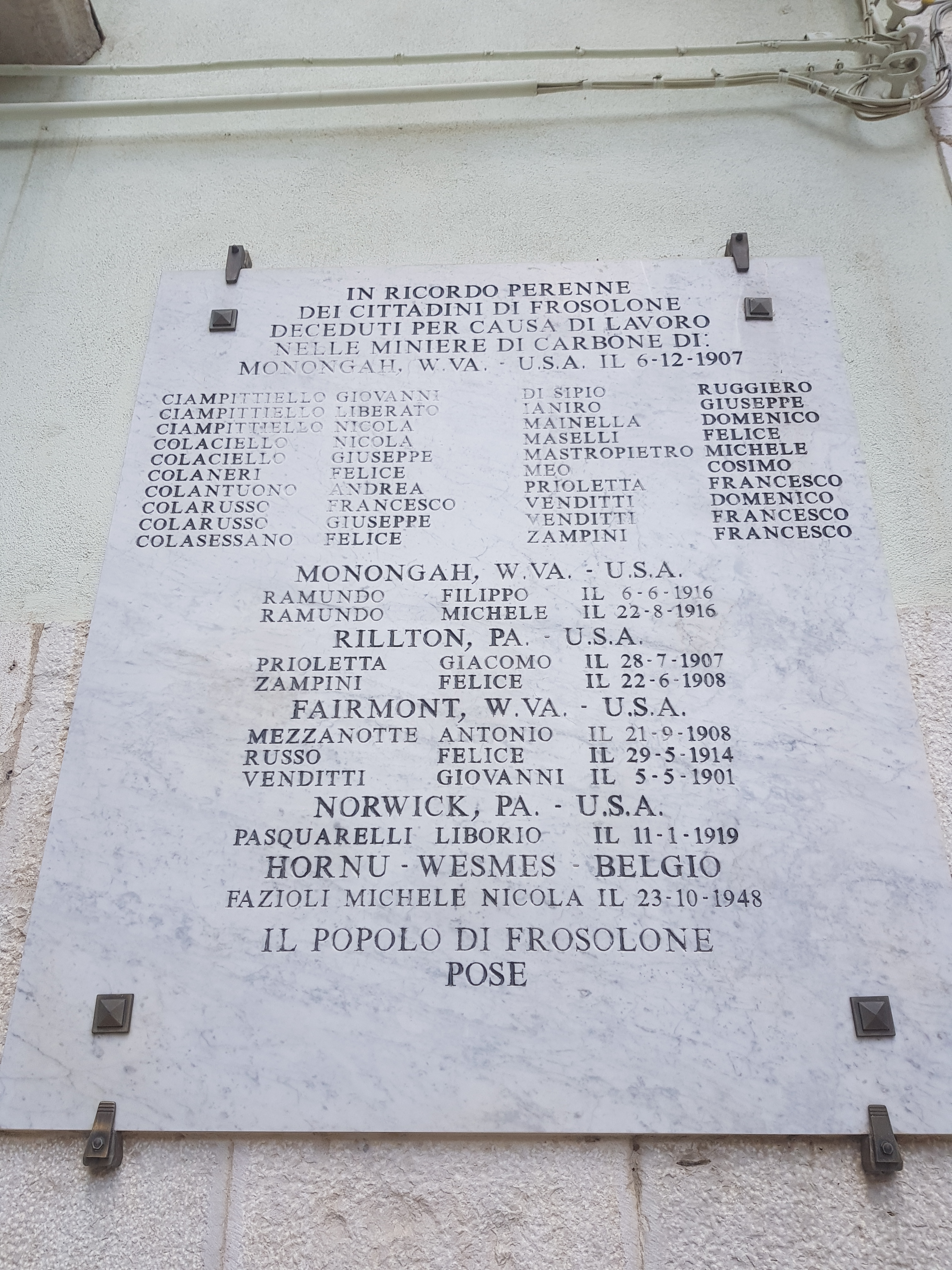 Frosolone mining memorial